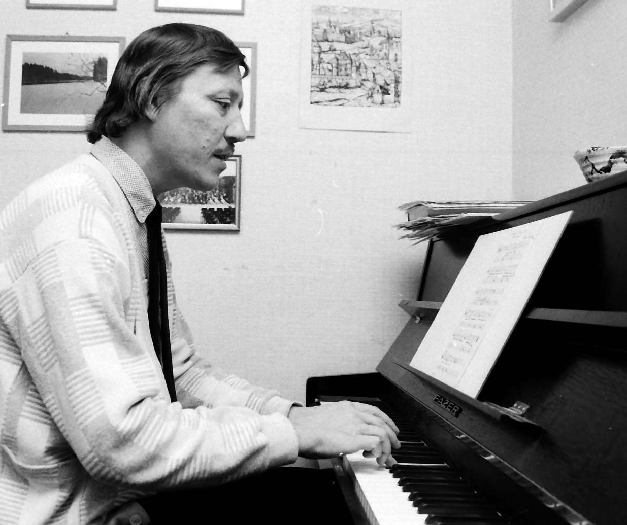 Composer Harri Tuominen at his home in Lappeenranta, Finland on October 26, 1988.